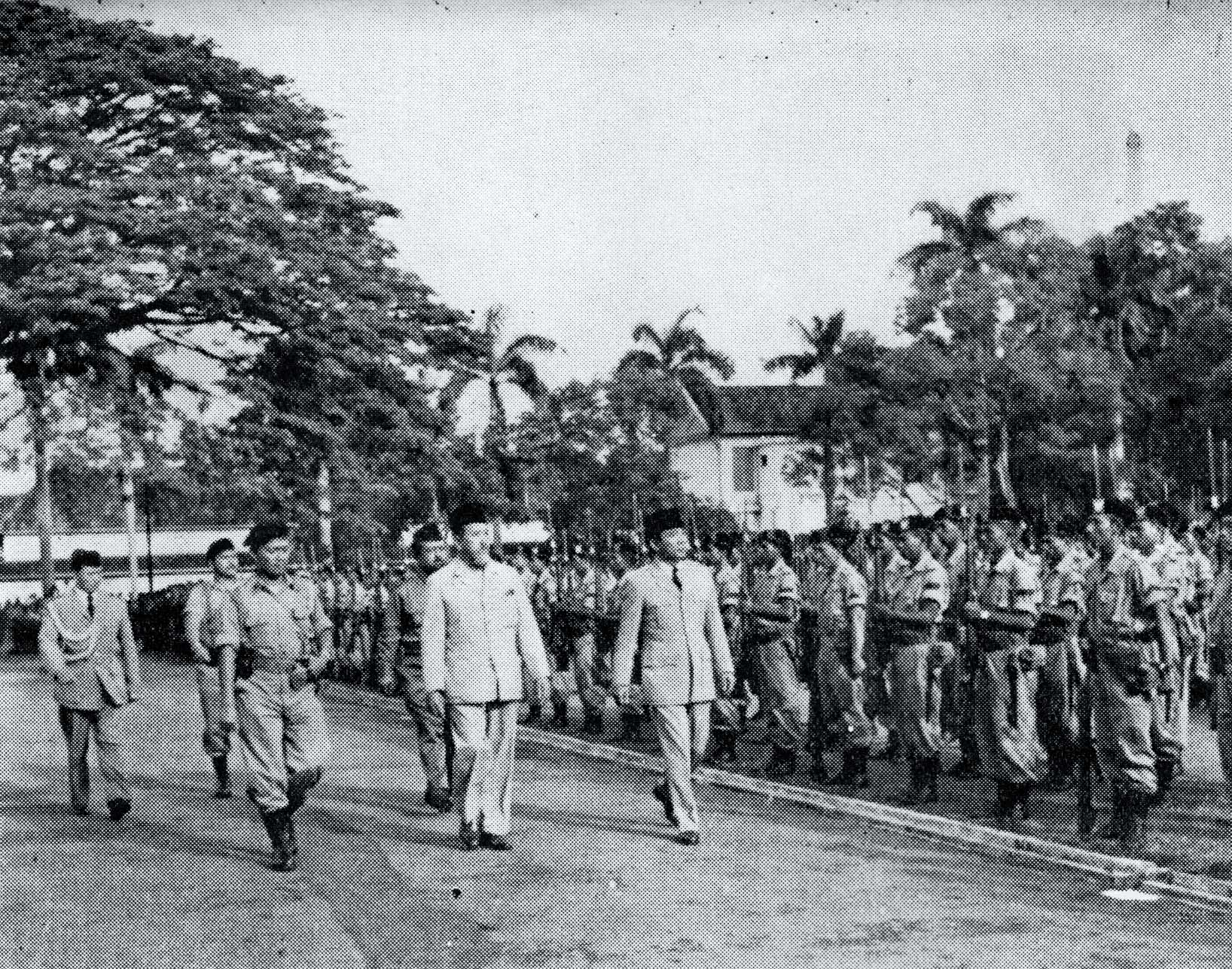 Sukarno and Ali Sastroamidjojo inspecting Garuda Contingent